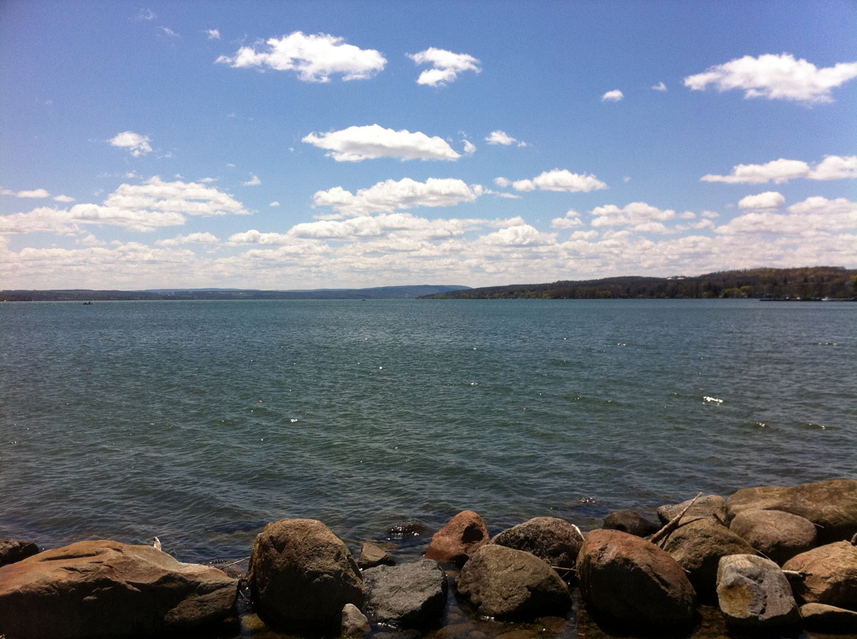 View from Kershaw Park on Canandaigua Lake. Looking south.